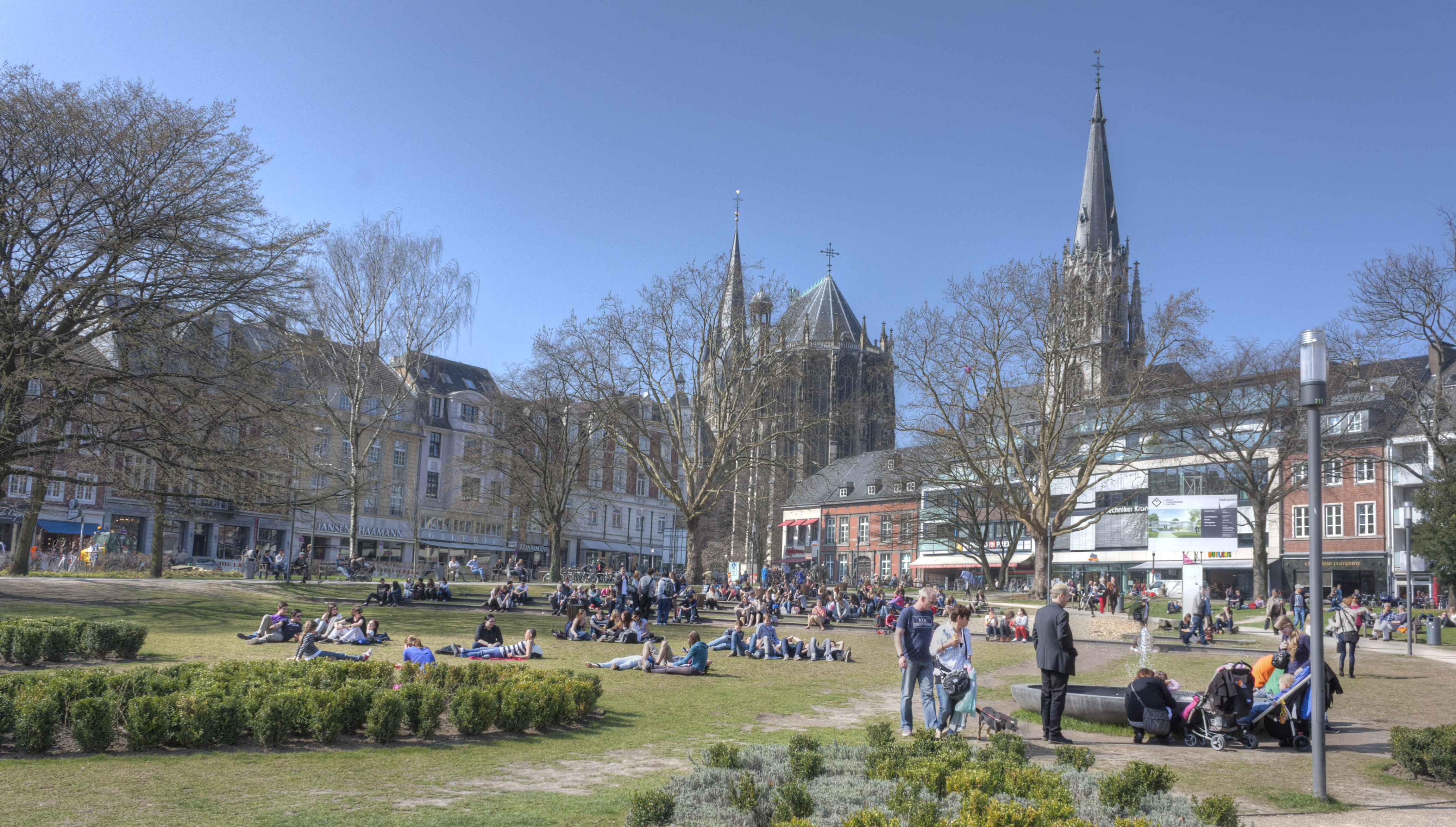 Aachen, Elisengarten – Spring 2012